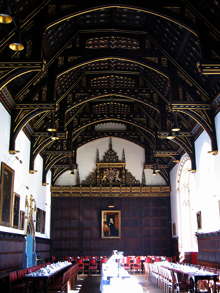 The dining hall of St John's College, Cambridge is housed in a 16th century room with an ornate hammerbeam roof and walls of linen-fold wood panelling.